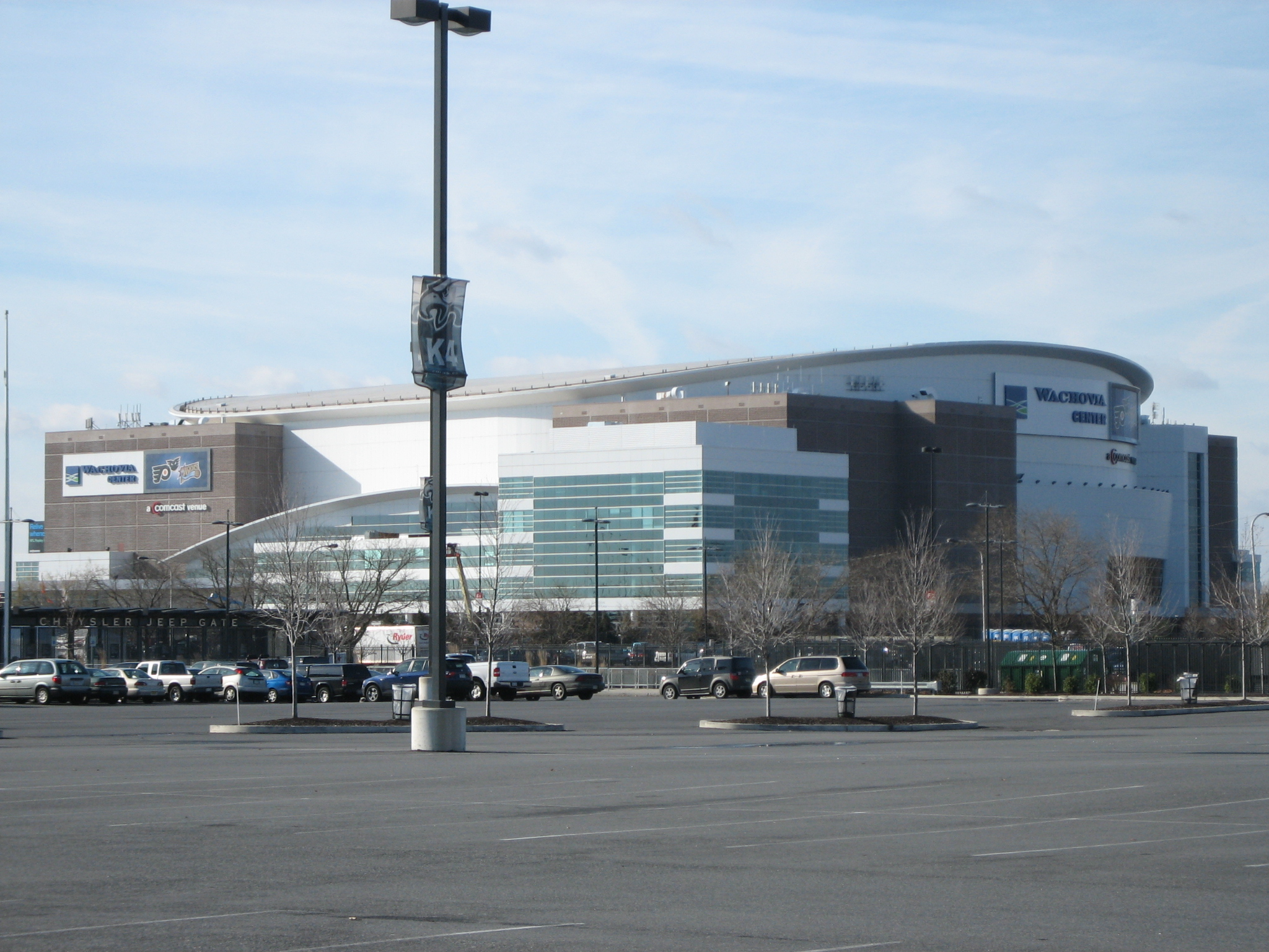 The Wachovia Center Category:Images of Philadelphia, Pennslyvania